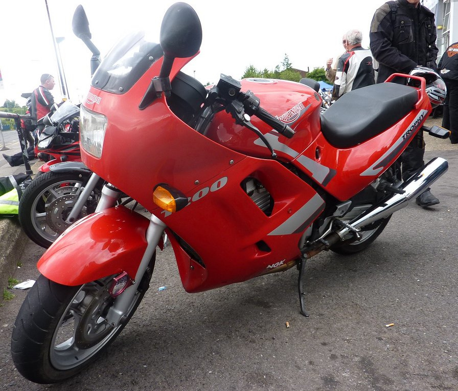 From first year of resumed production at new Hinckley factory